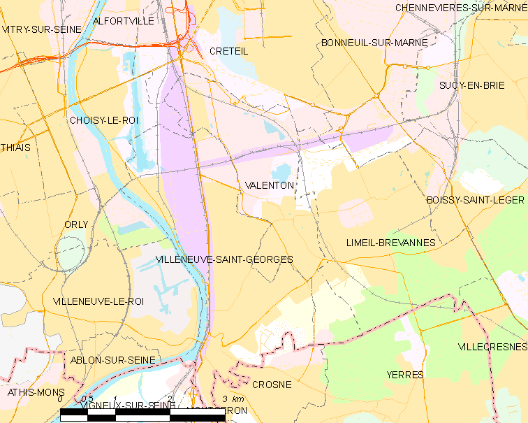 Map of French municipality Valenton